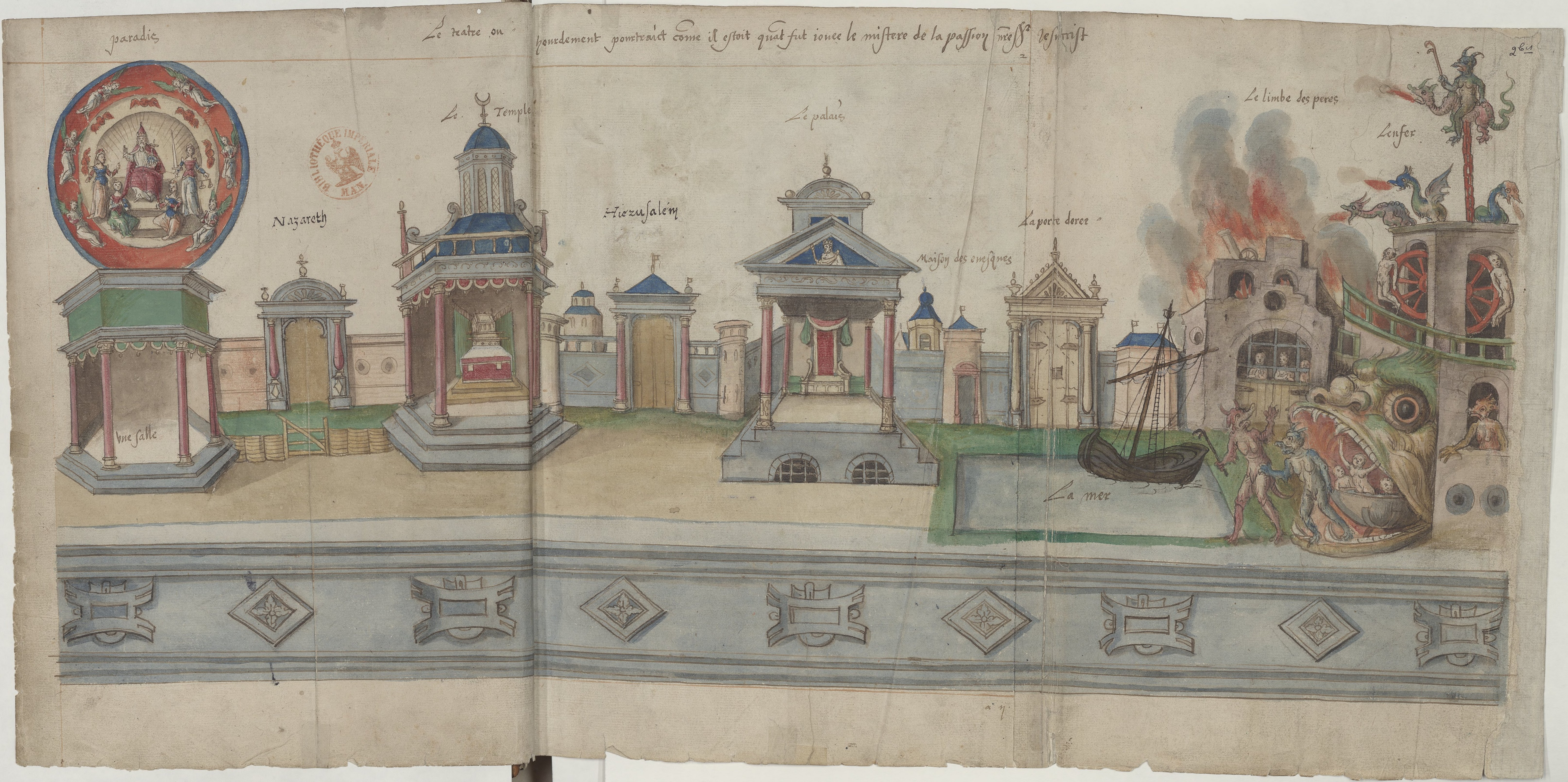 Frontispiece showing the stage design for a mystery play, The Passion and Resurrection of the Savior, a Passion play performed in Valenciennes in 1547. The image provides an overview of the scenic backgrounds stretched across a single long stage. The locations identified, R-L, include a split-level Hell with dramatic Hellmouth, Limbo/Purgatory of the Fathers, the Sea [of Galilee], the Golden Gate, the Bishop's House, the Palace, Jerusalem, the Temple, Nazareth, a Hall, and an elevated Paradise.